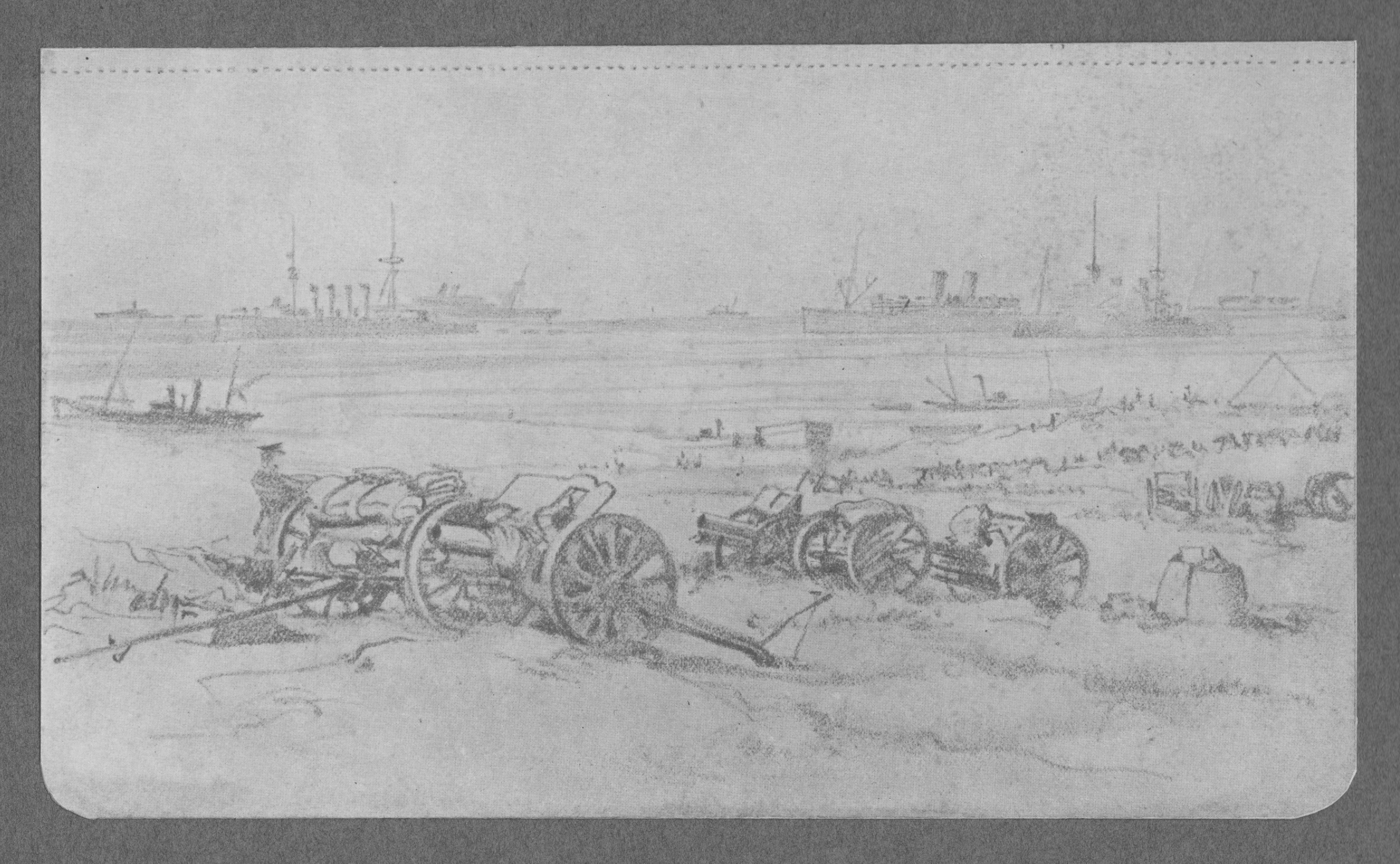 This is a photograph of a pencil drawing by the artist Walter Balmer Hislop made during the Gallipoli landings in 1915.